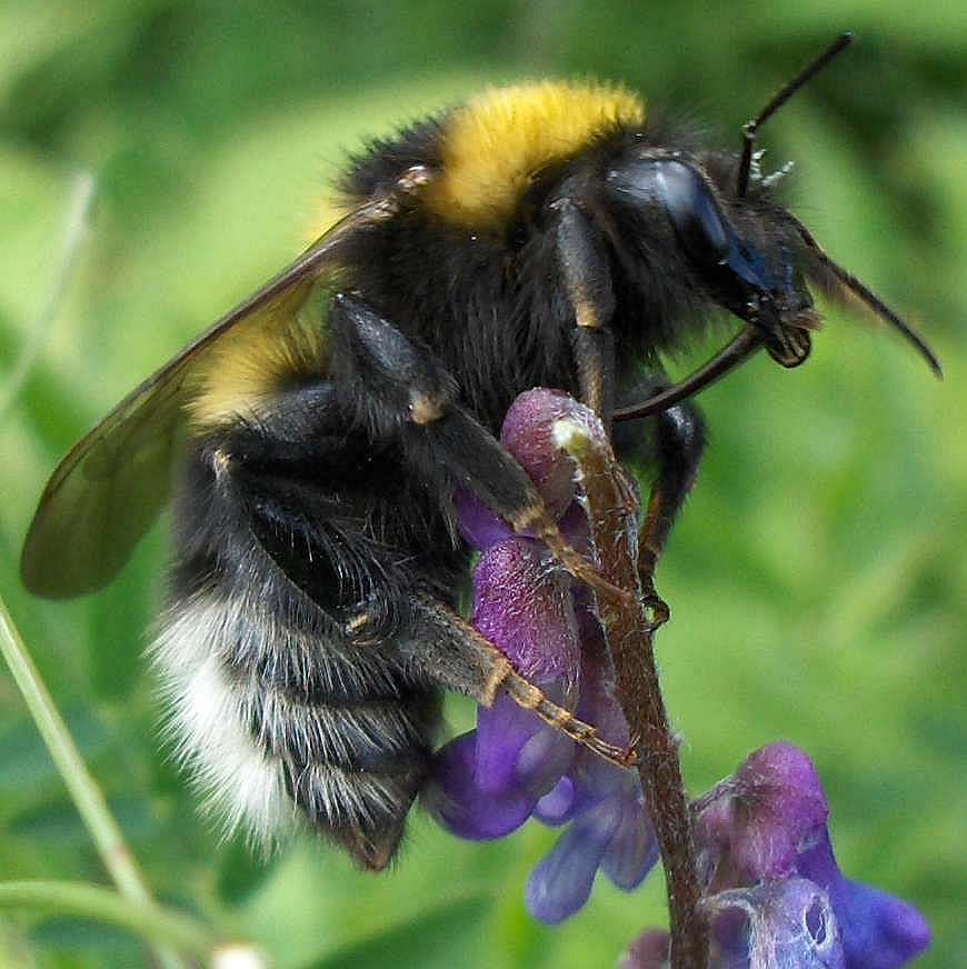 Queen of Garden bumblebee Bombus hortorum. Notice the long head and the very long tongue.